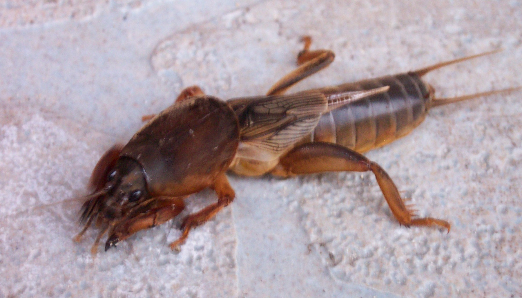 front, high angle